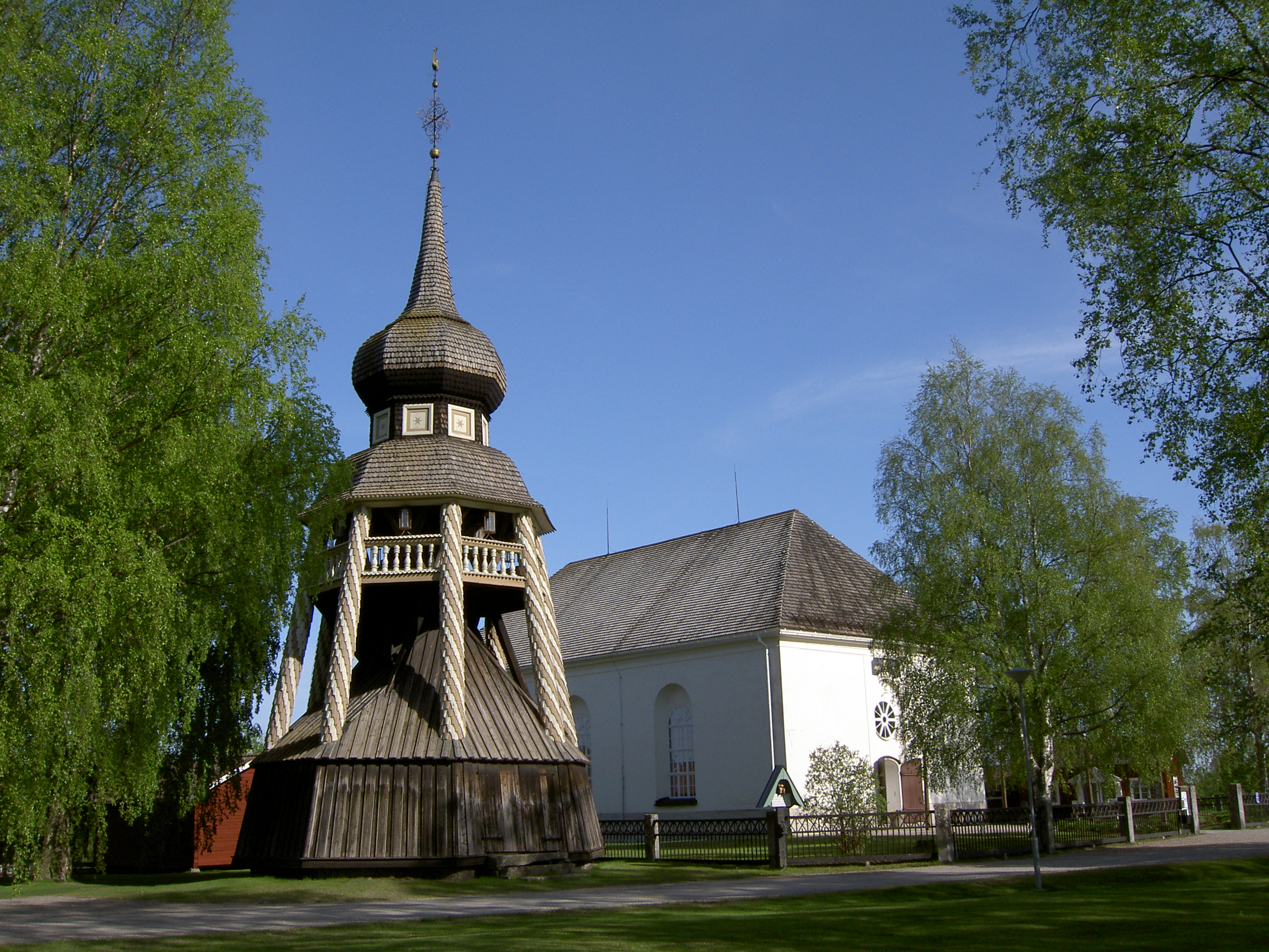 Bell tower and church